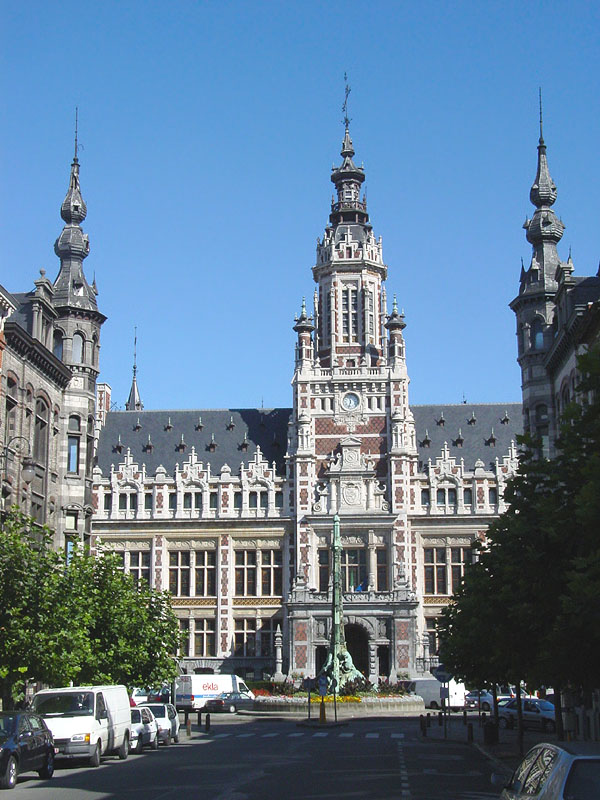 Schaerbeek Town Hall on 18th September 2005 at 11:59. Taken by David Edgar.